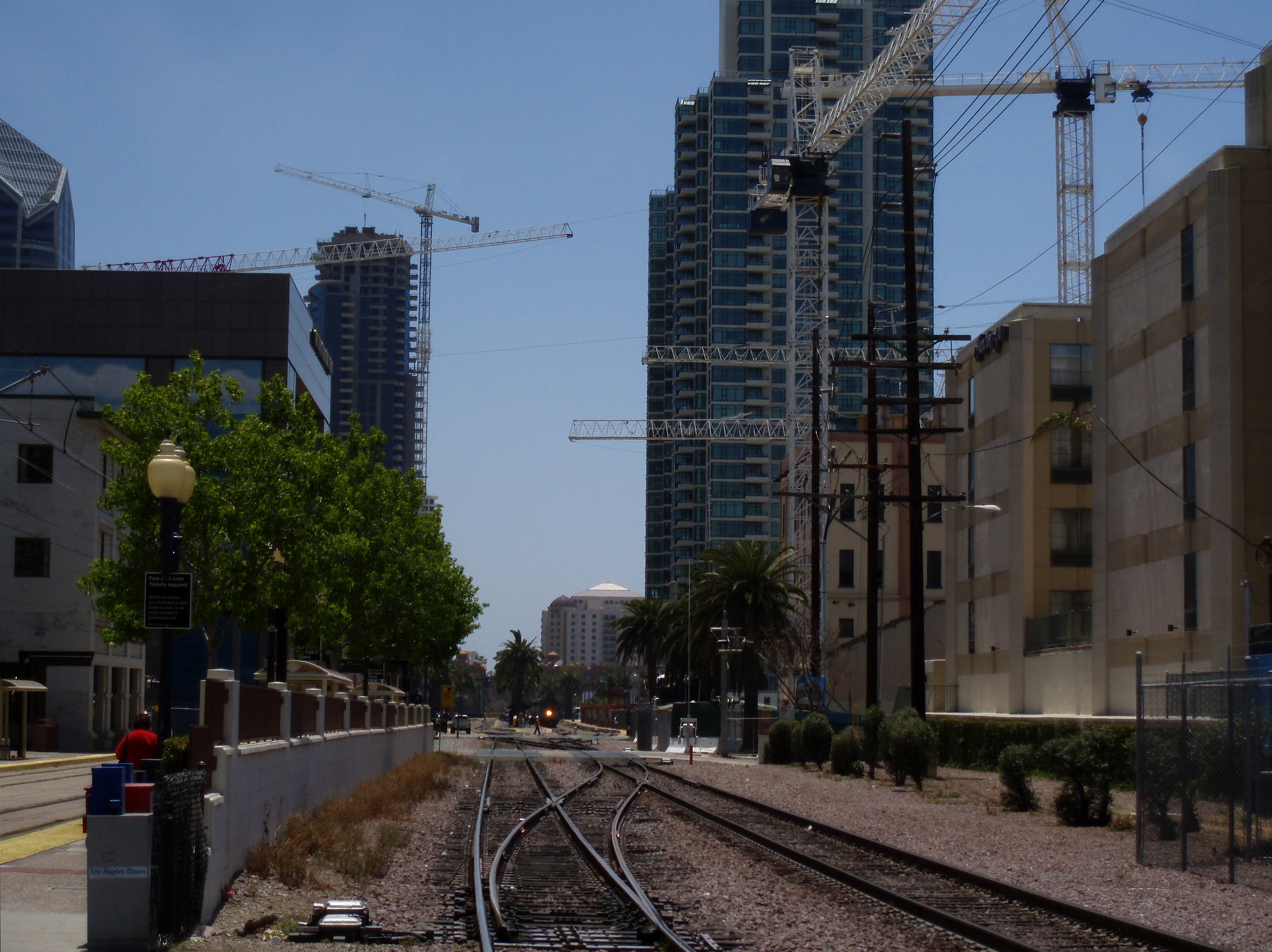 Western part of the Columbia District of Downtown San Diego undergoing redevelopment. Viewed from the Little Italy/County Center Trolly stop/train crossing at California st. and Cedar st.